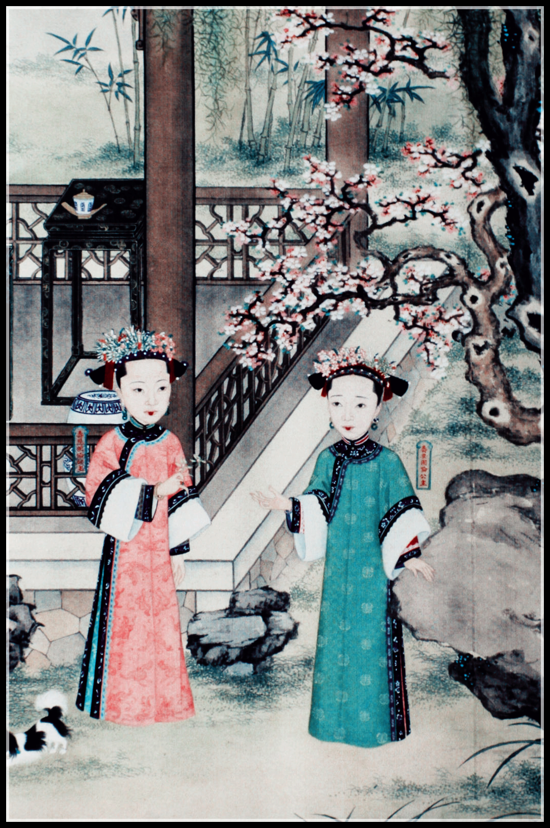 Princesses Kurun Shou'an and Kurun Shou'en of China